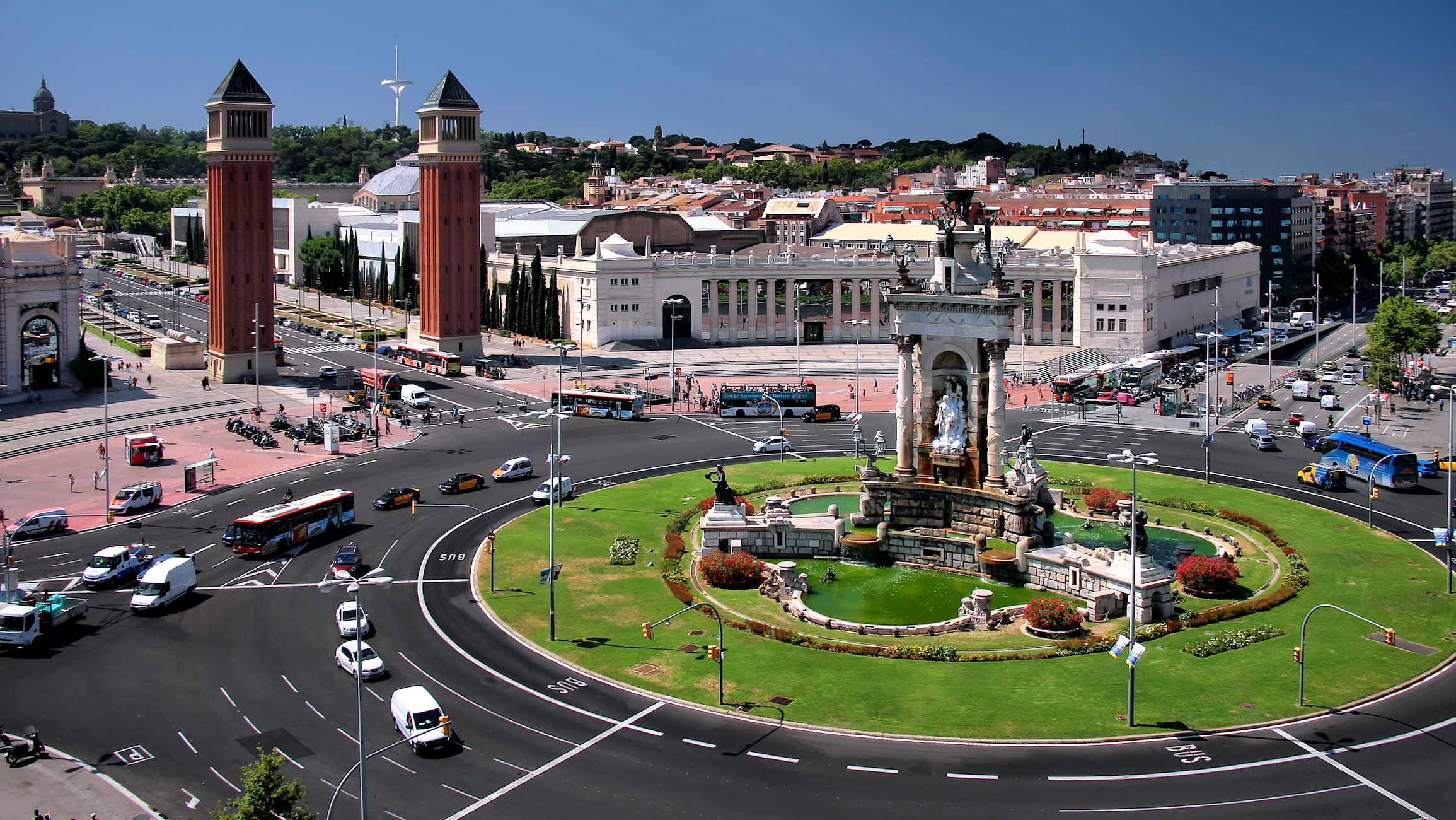 Plaça d'Espanya at Barcelona (Catalonia, Spain).